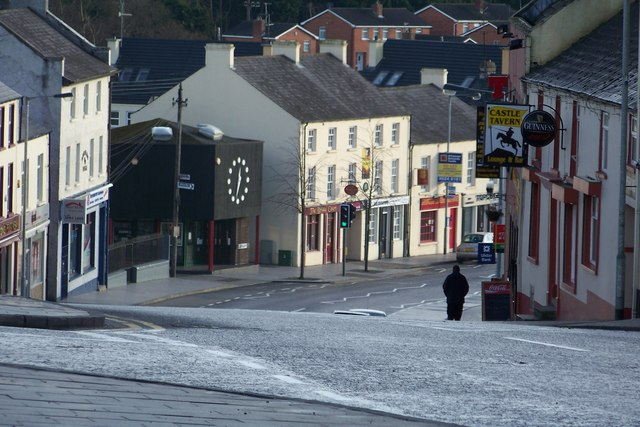 Tandragee on a Sunday afternoon Taken from the Square looking down into Market Street